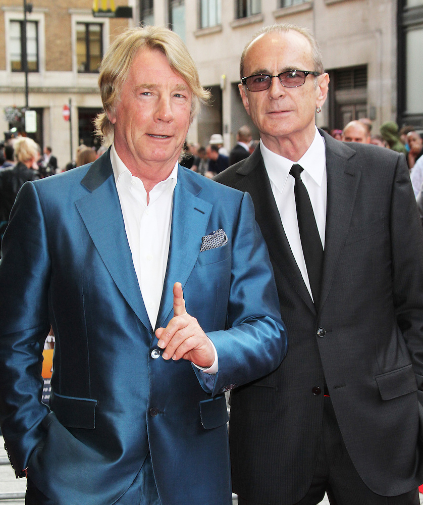 British musicians Rick Parfitt and Francis Rossi at the Bula Quo! UK film premiere, Odeon West End cinema, Leicester Square, London, UK on 1 July 2013.